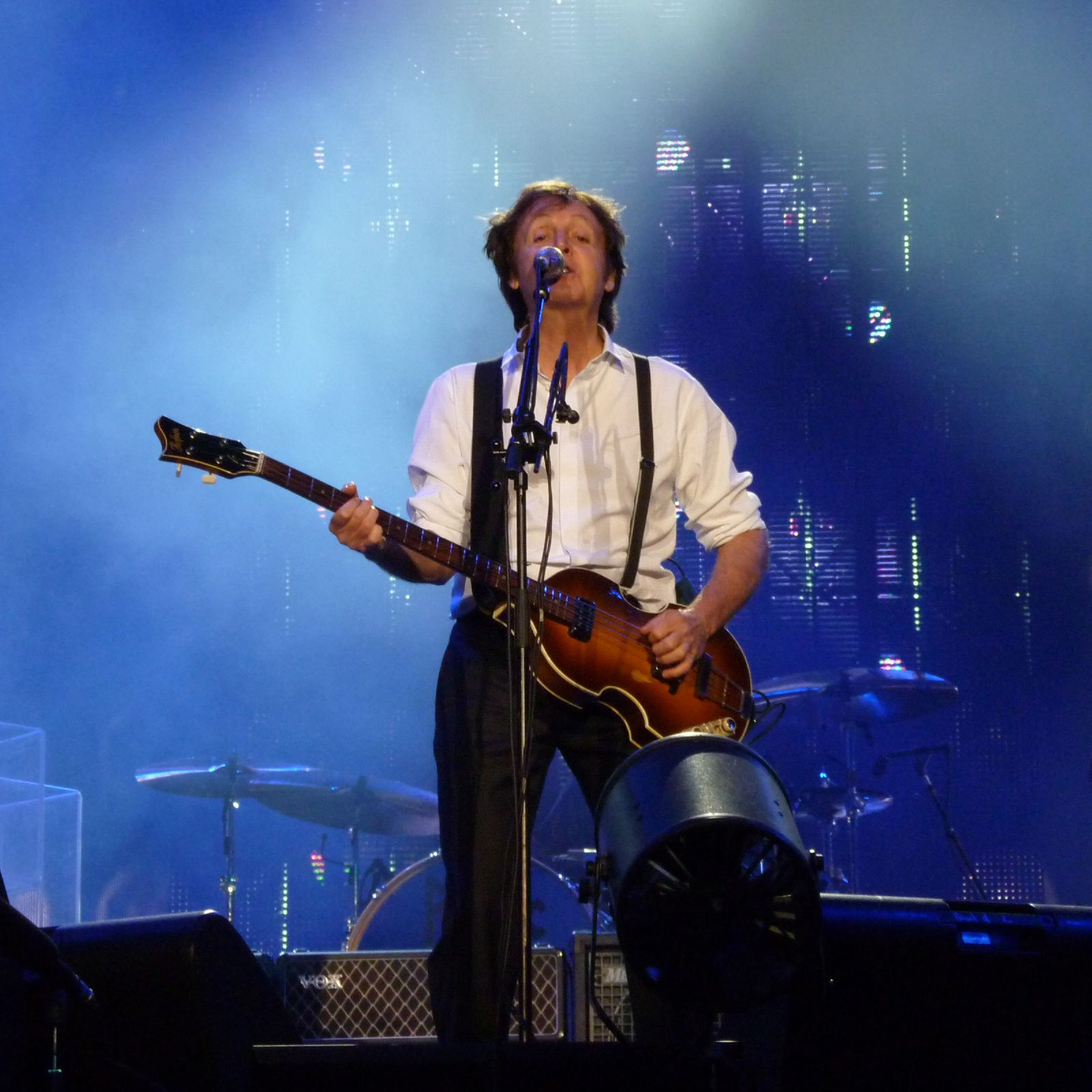 Paul McCartney performing live in Dublin, Ireland on July 10, 2010